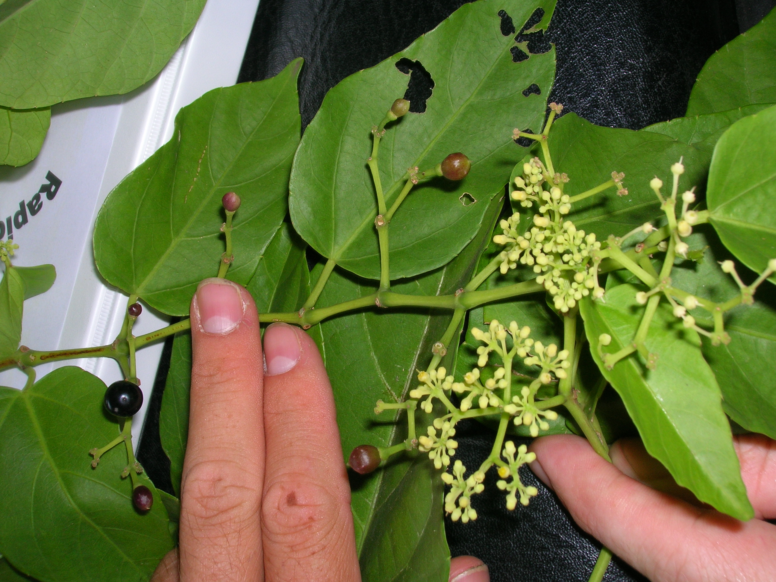 Cissus verticillata (leaves and flowers). Location: Oahu, Waimanalo